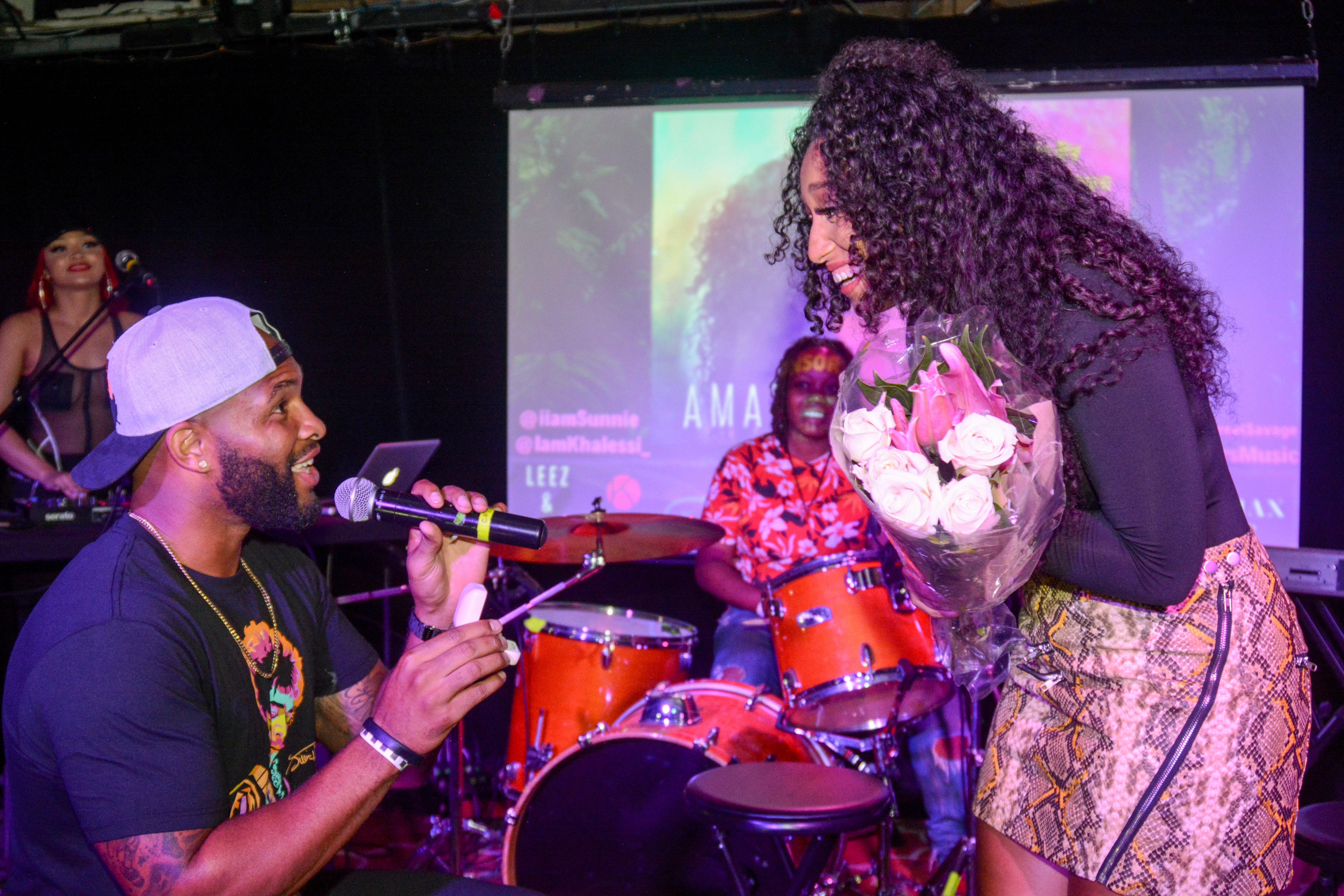 The night Paul asked his fiancee to marry him.